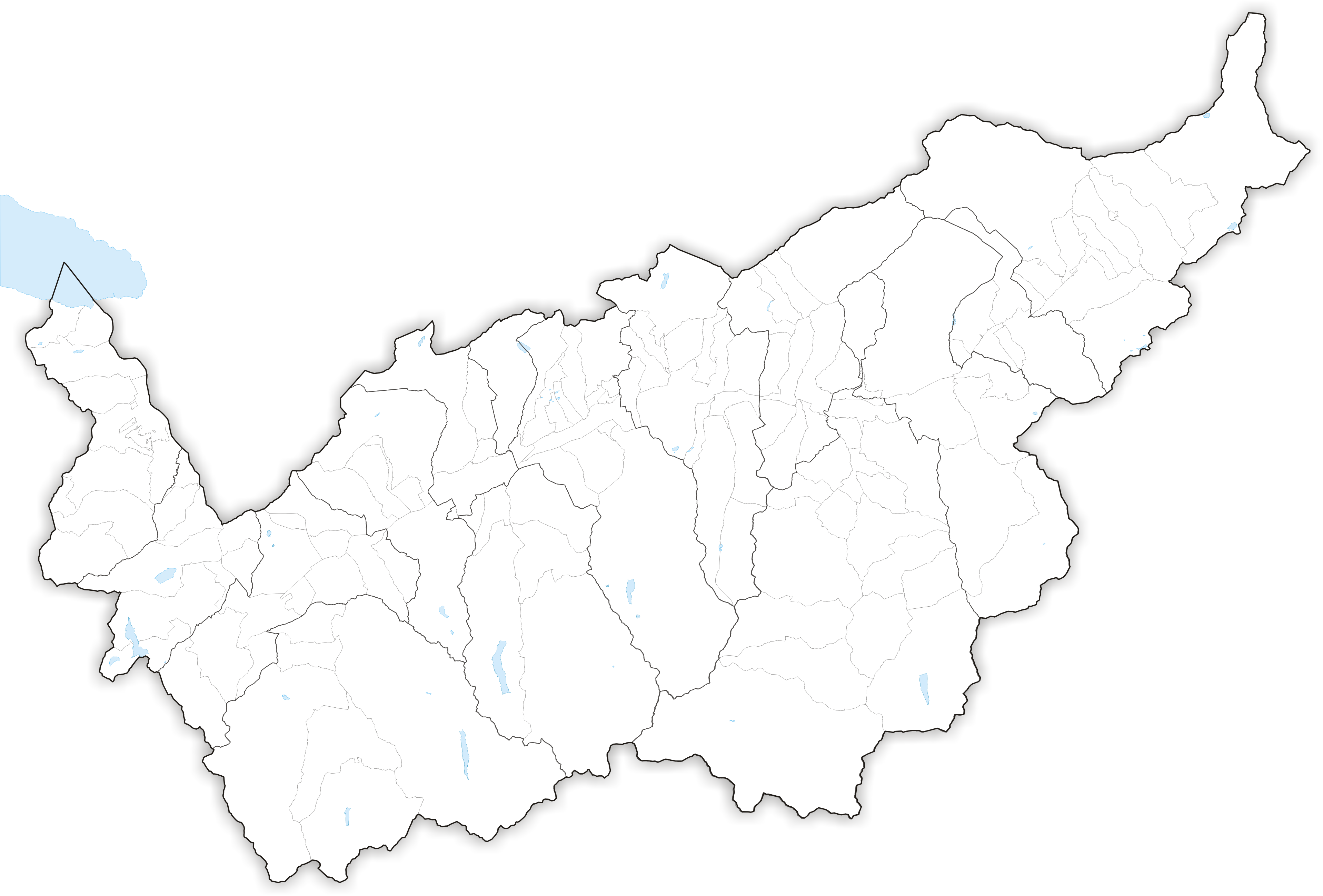 Municipalities in Canton Wallis